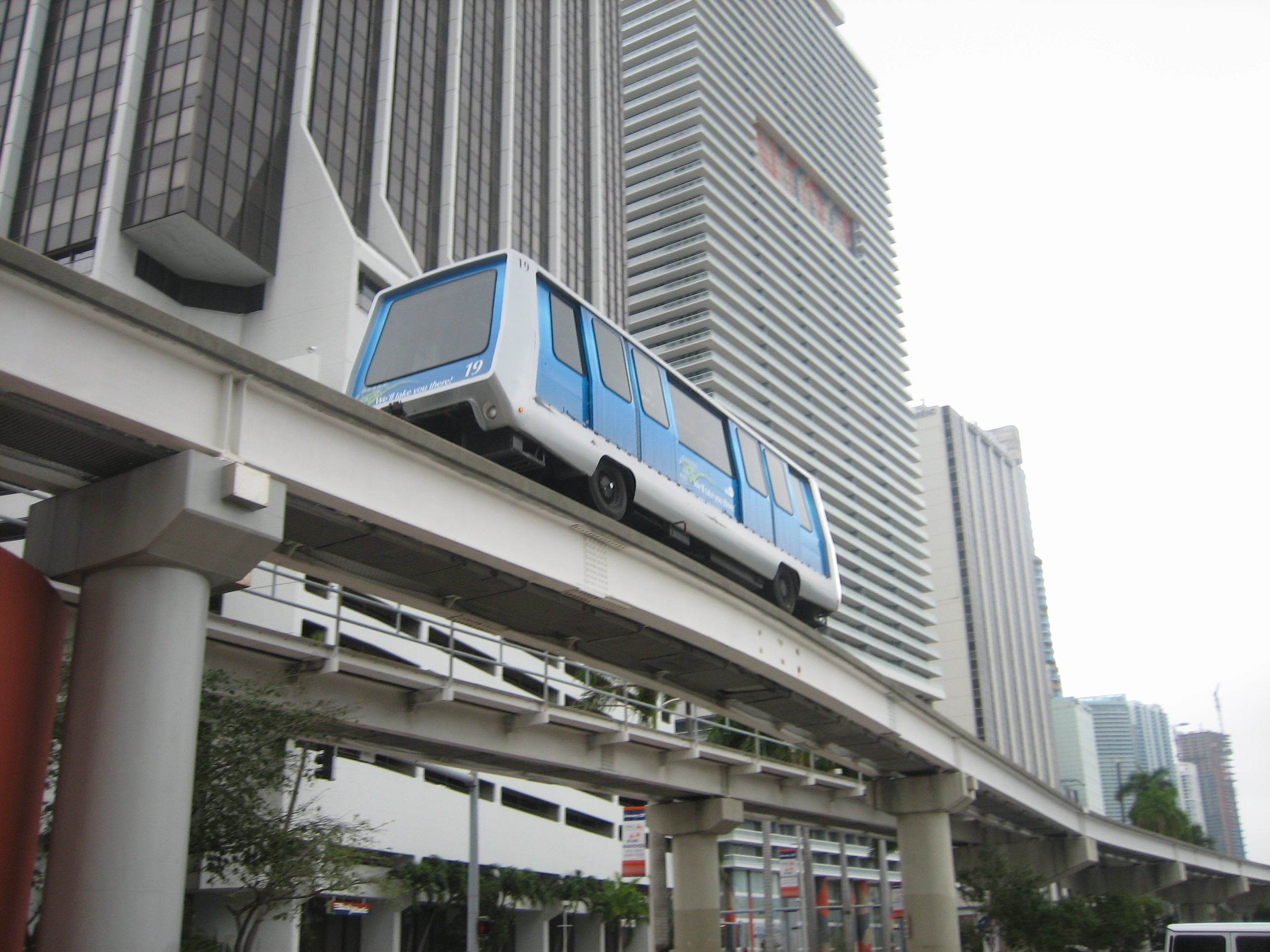 The Miami-Dade Metromover in Miami, Florida.